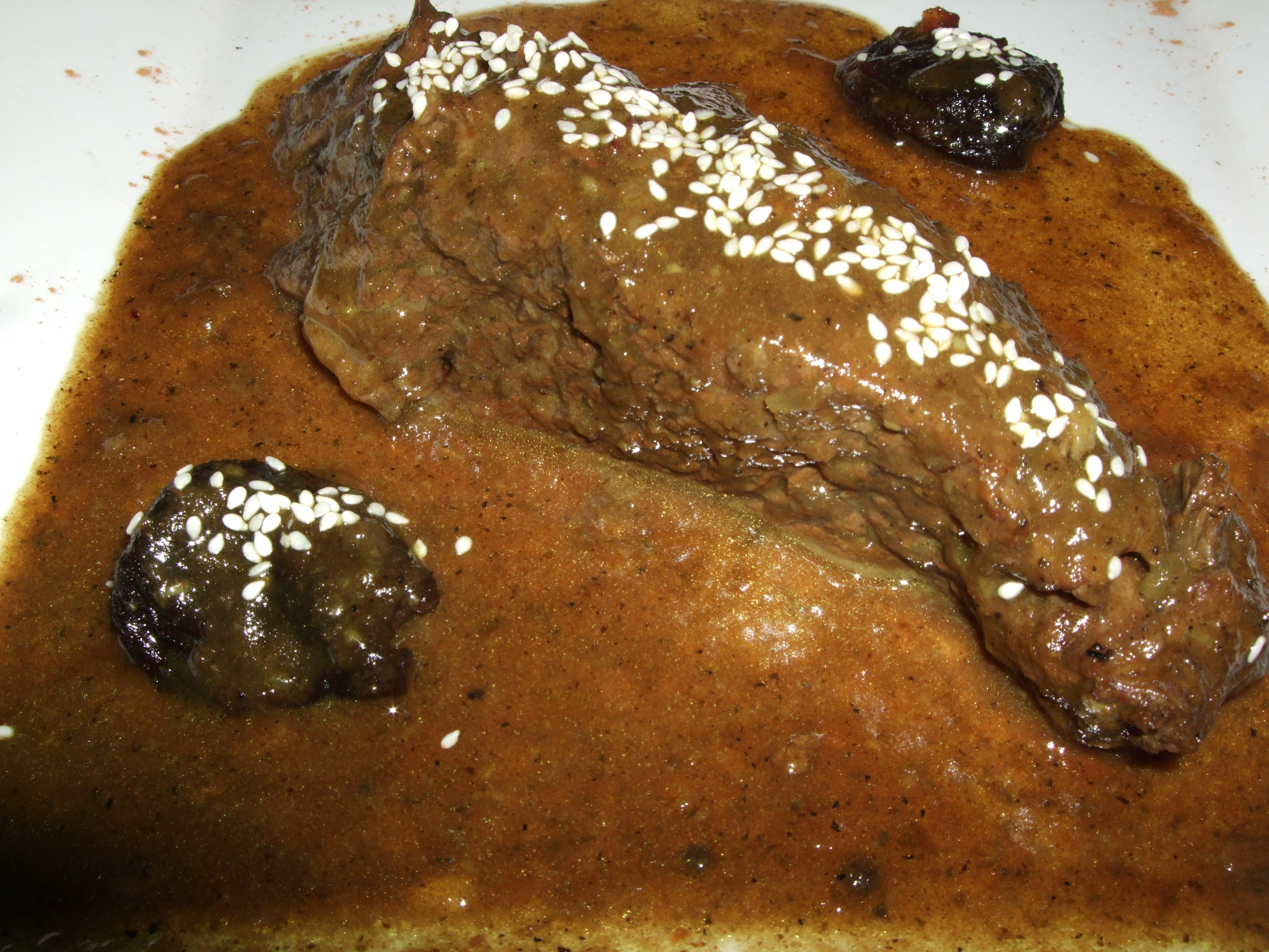 long simmered beef short ribs with prunes and roasted almonds